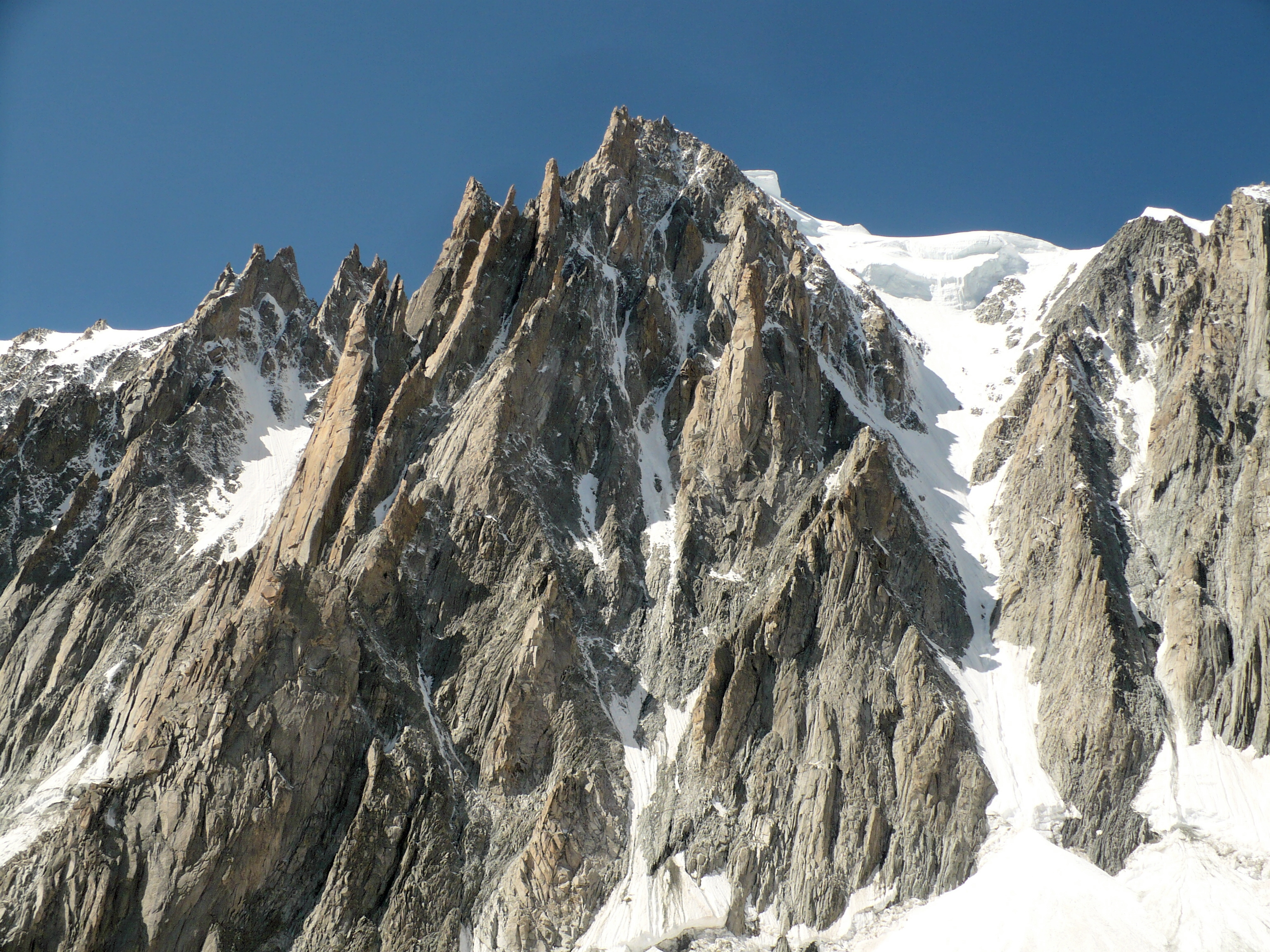 Aiguilles du Diables from Glacier du Geant - Mont Blanc massif - Graian Alps